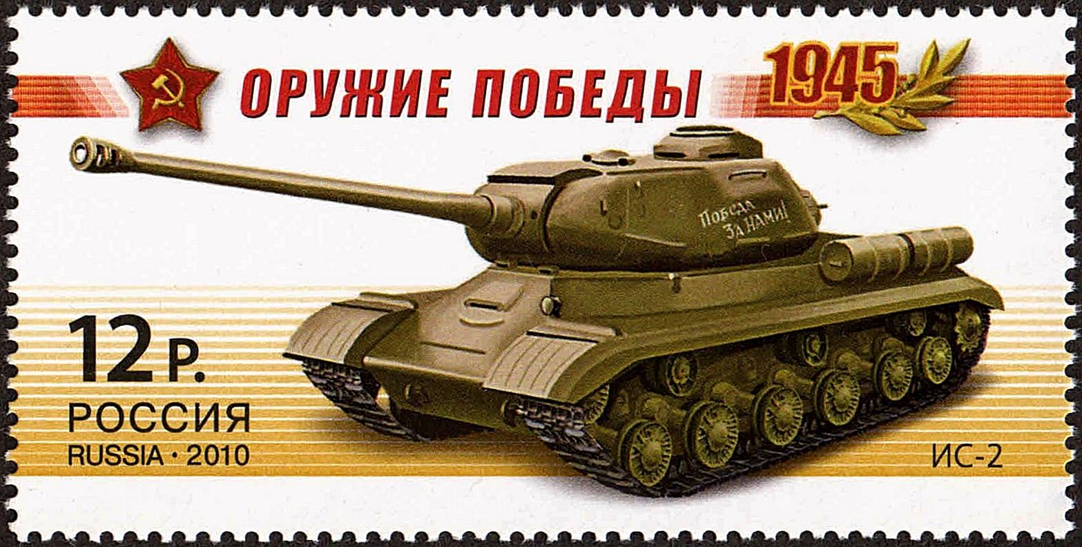 The weapon of the Victory (the ongoing stamp series). Issue II: Tanks. The Soviet medium tank IS-2. 1943. The stamp features IS-2M, the postwar modernized version of the tank. The stamp of Russia, 12.00 Rubles, 20 April 2010, PTC Marka Catalogue No 1407, Michel No 1639. Coated paper. Offset printing, multicoloured. Perforation: comb 13½. Size of the stamp: 65×32.5 mm. Print run: 675,000.